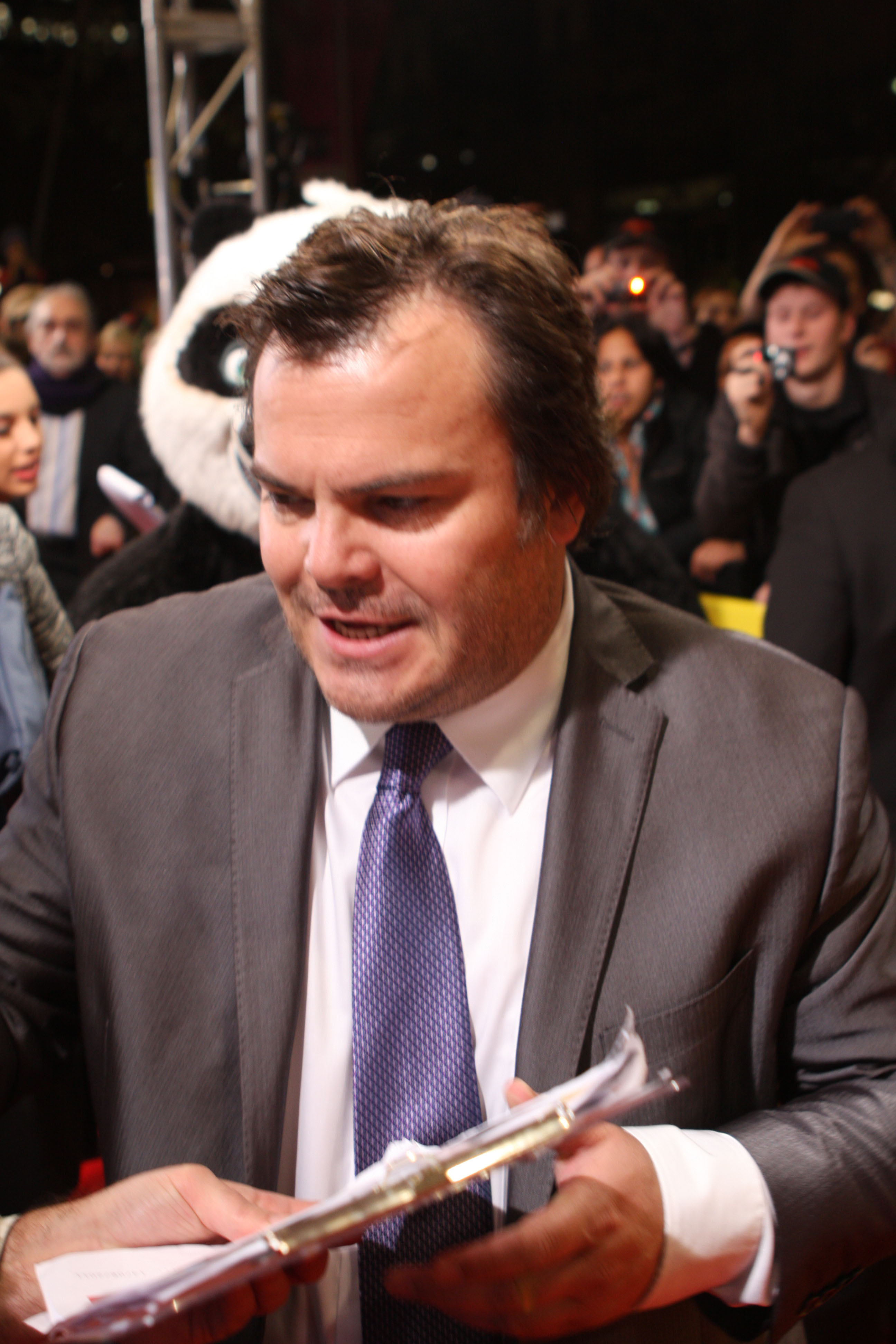 Jack Black at Kung Fu Panda 2 premiere in Sydney